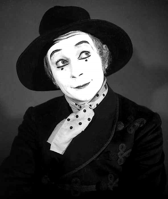 portrait of Lindsey Kemp